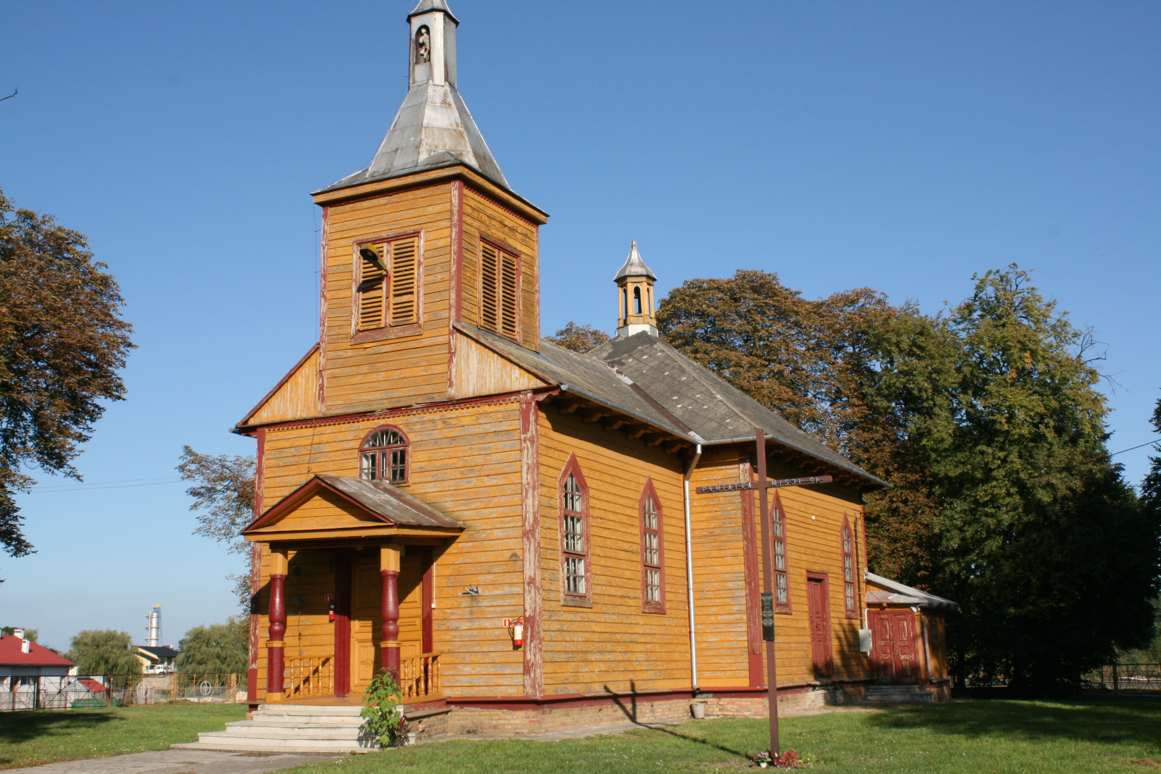 Greek Catholic church of Saint Michael the Archangel in Werbkowice, Poland